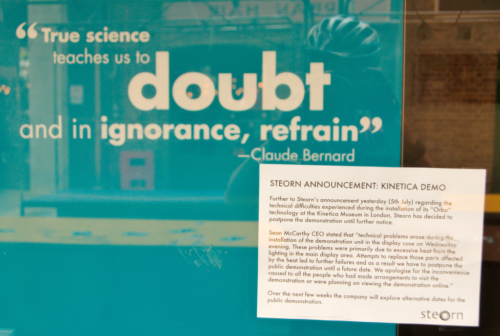 A poster informing of the cancellation of the Steorn Orbo Exhibition at the former Kinetica gallery, London